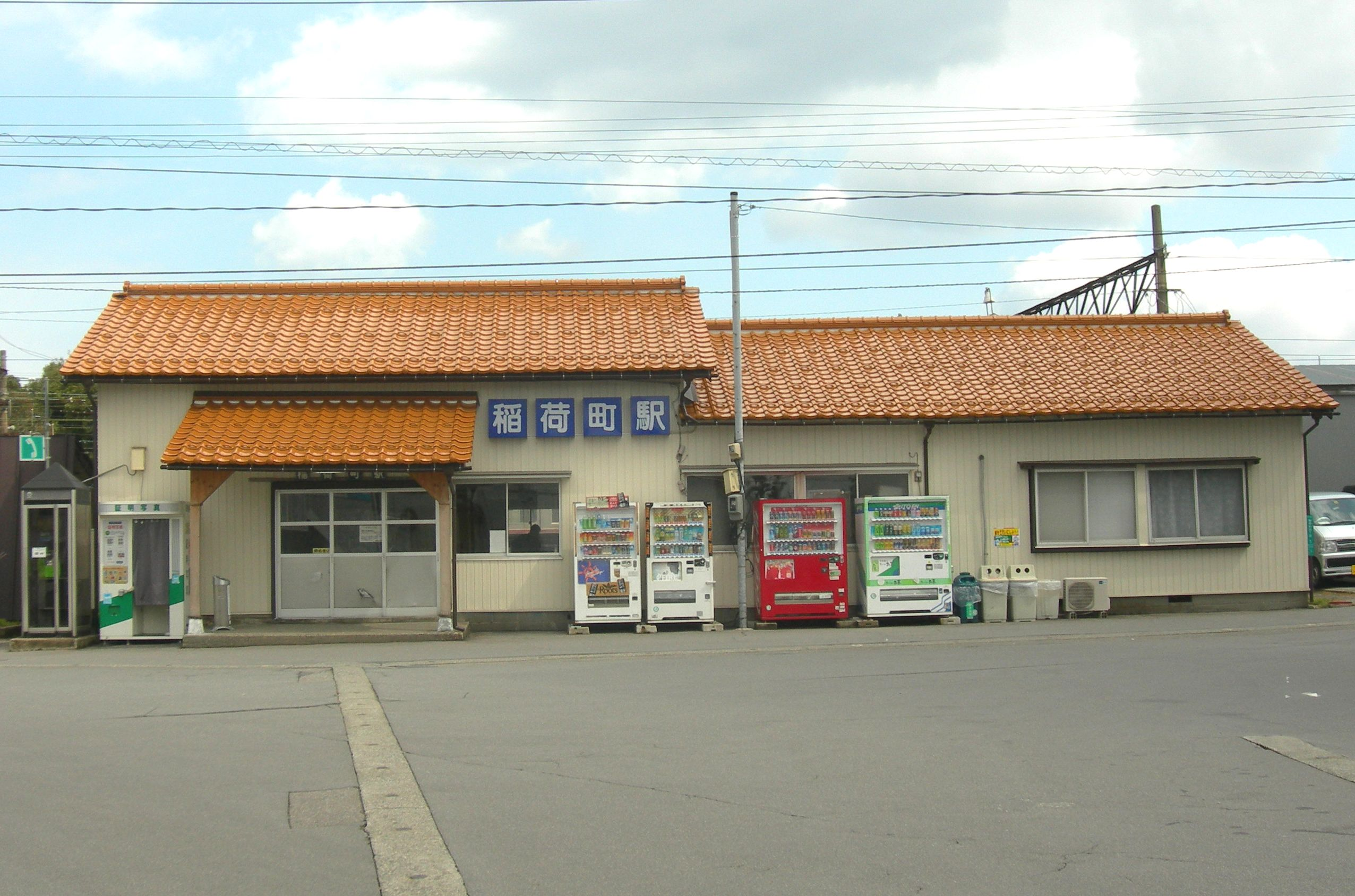 Toyama Chiho Railway Inaricho Station